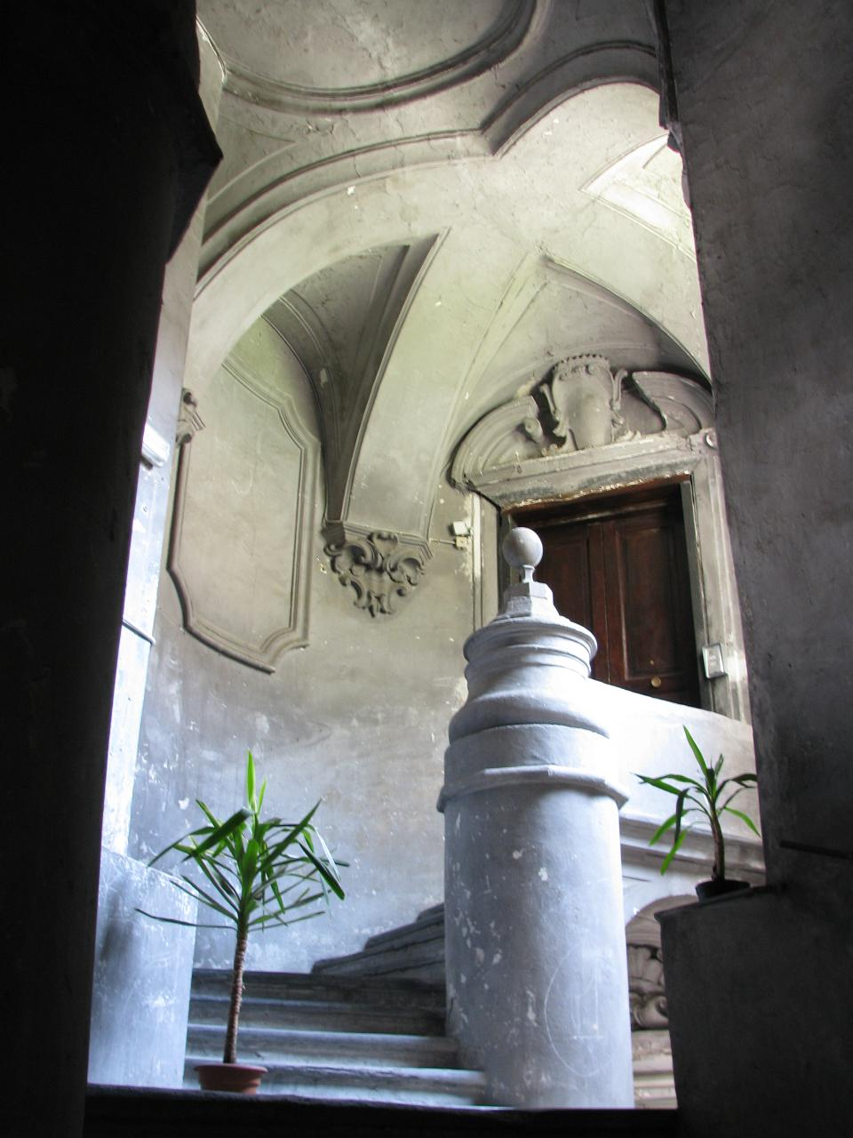 Palazzo Sanfelice, Naples (Napoli)